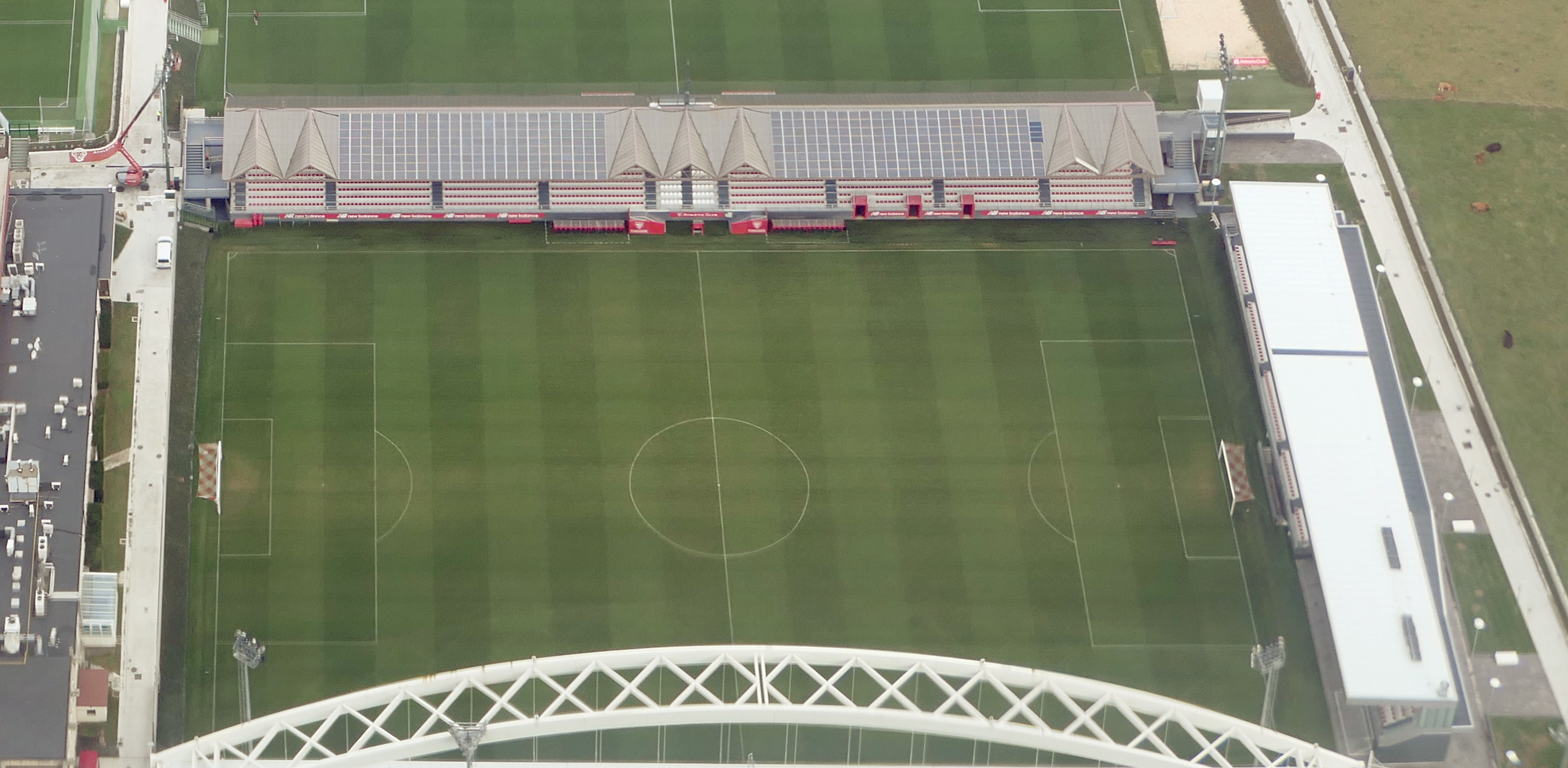 An aerial view of Athletic Bilbao's training grounds at Lezama.